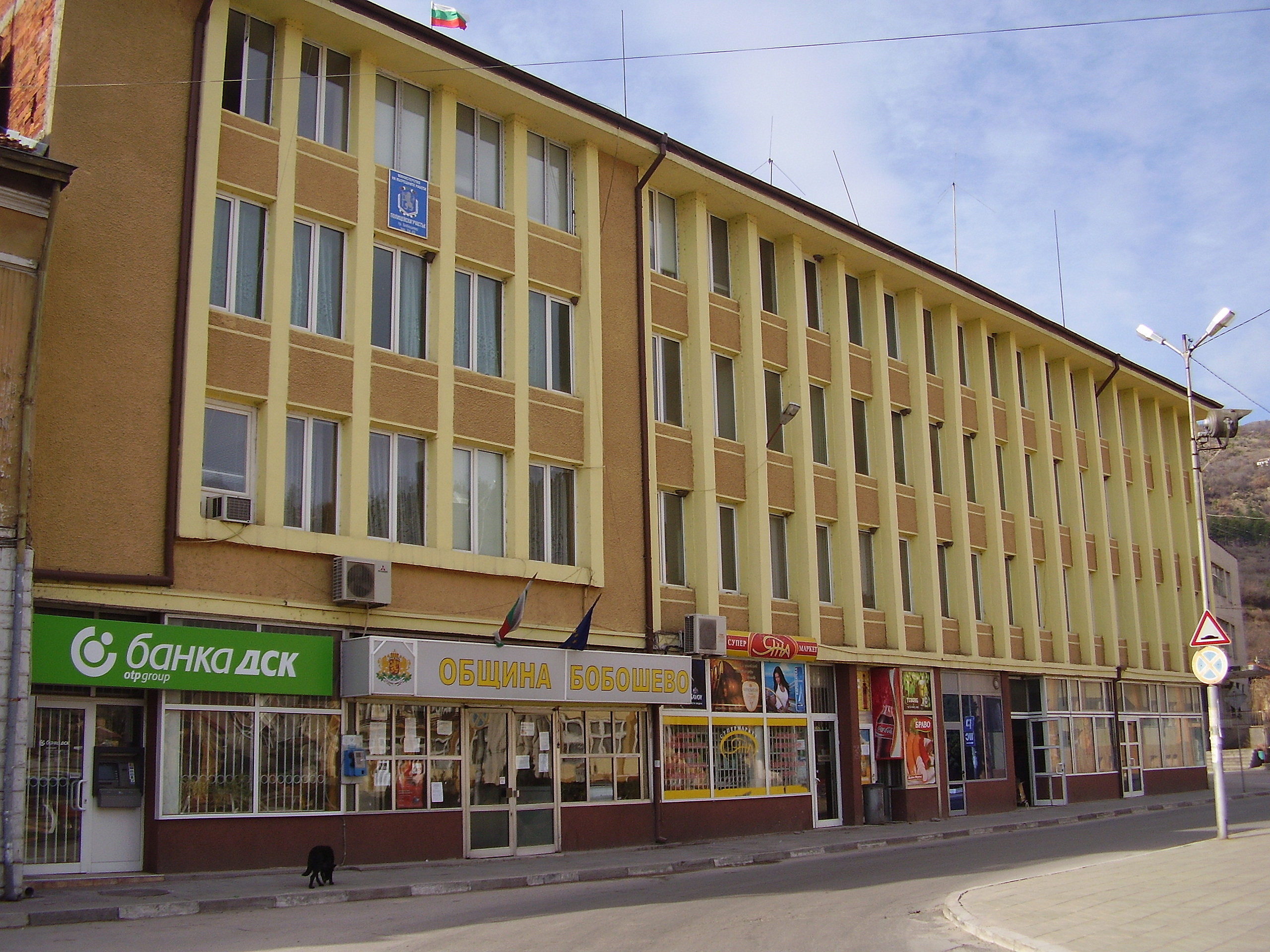 Centre of the town of Boboshevo, Bulgaria